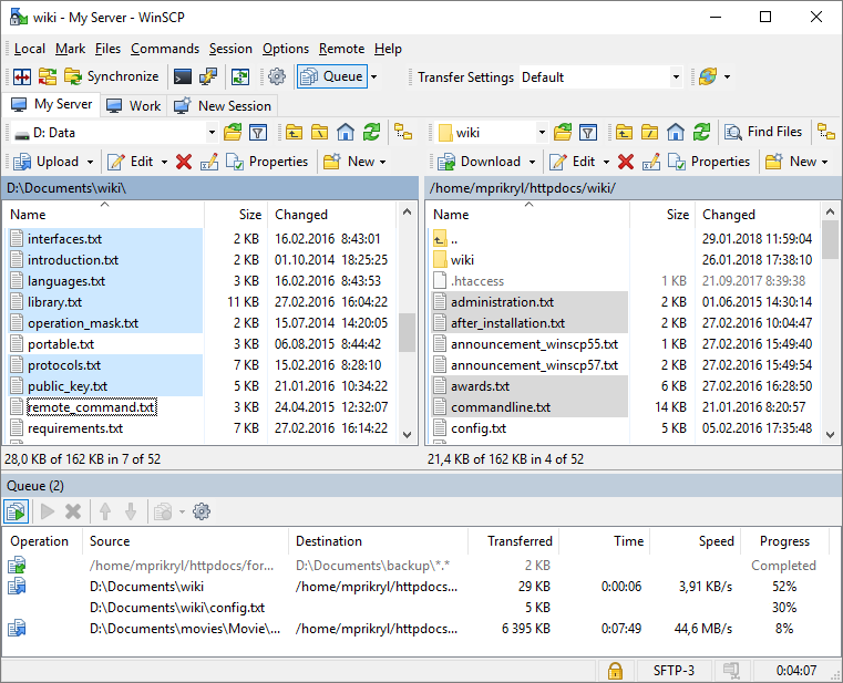 Screenshot of WinSCP 5.13 (Windows 10)